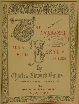 Title page to elegy by Charles Edward Barns, Williard Fracker & Co., New York